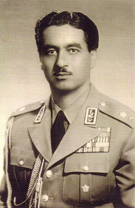 Teymour Bakhtiar, youngest General ever in history of Iran